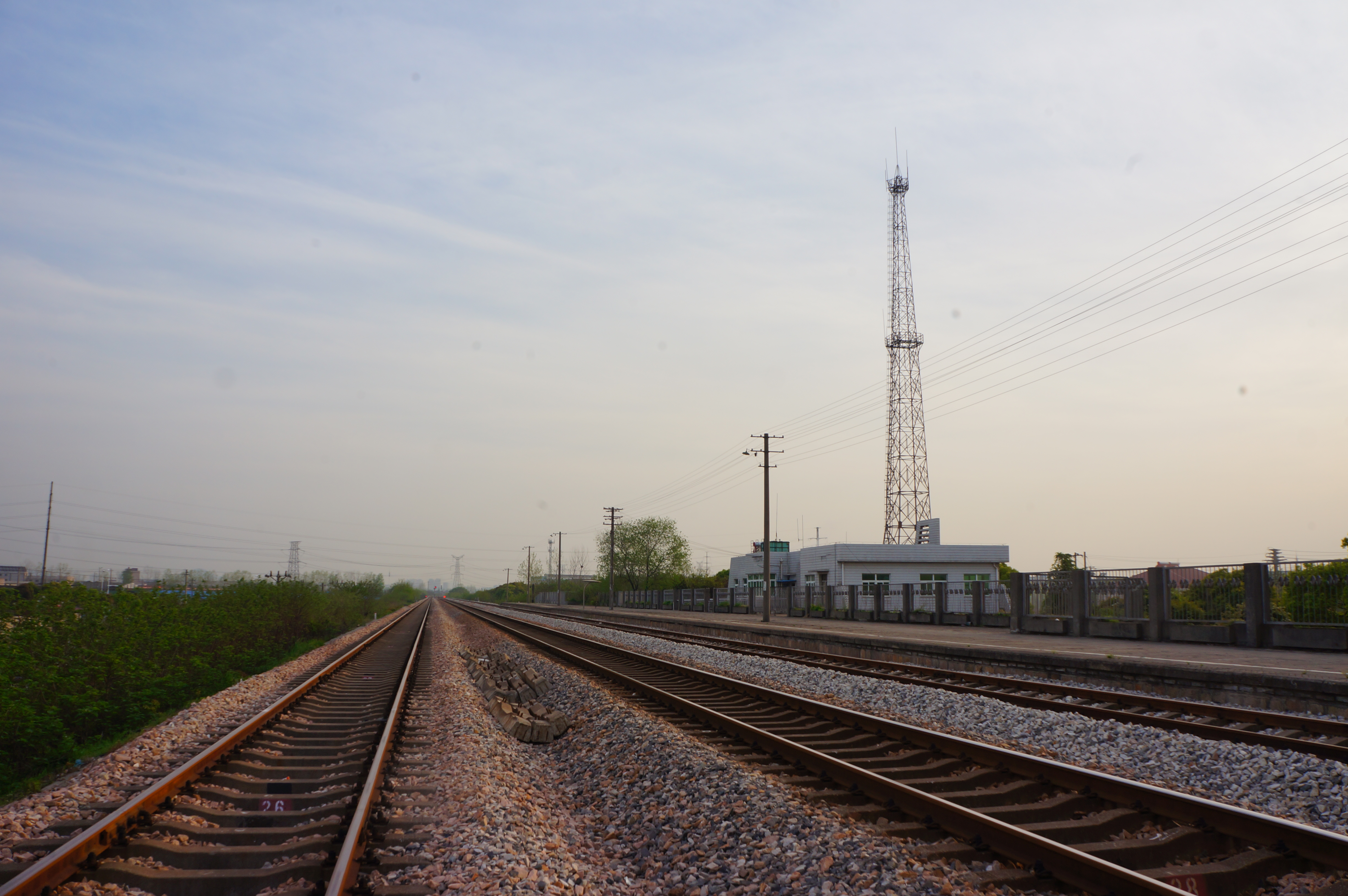 201704 Qianzhou Station Changxingnan Direction. I did not expect to shoot any train in this nearly broken railway.